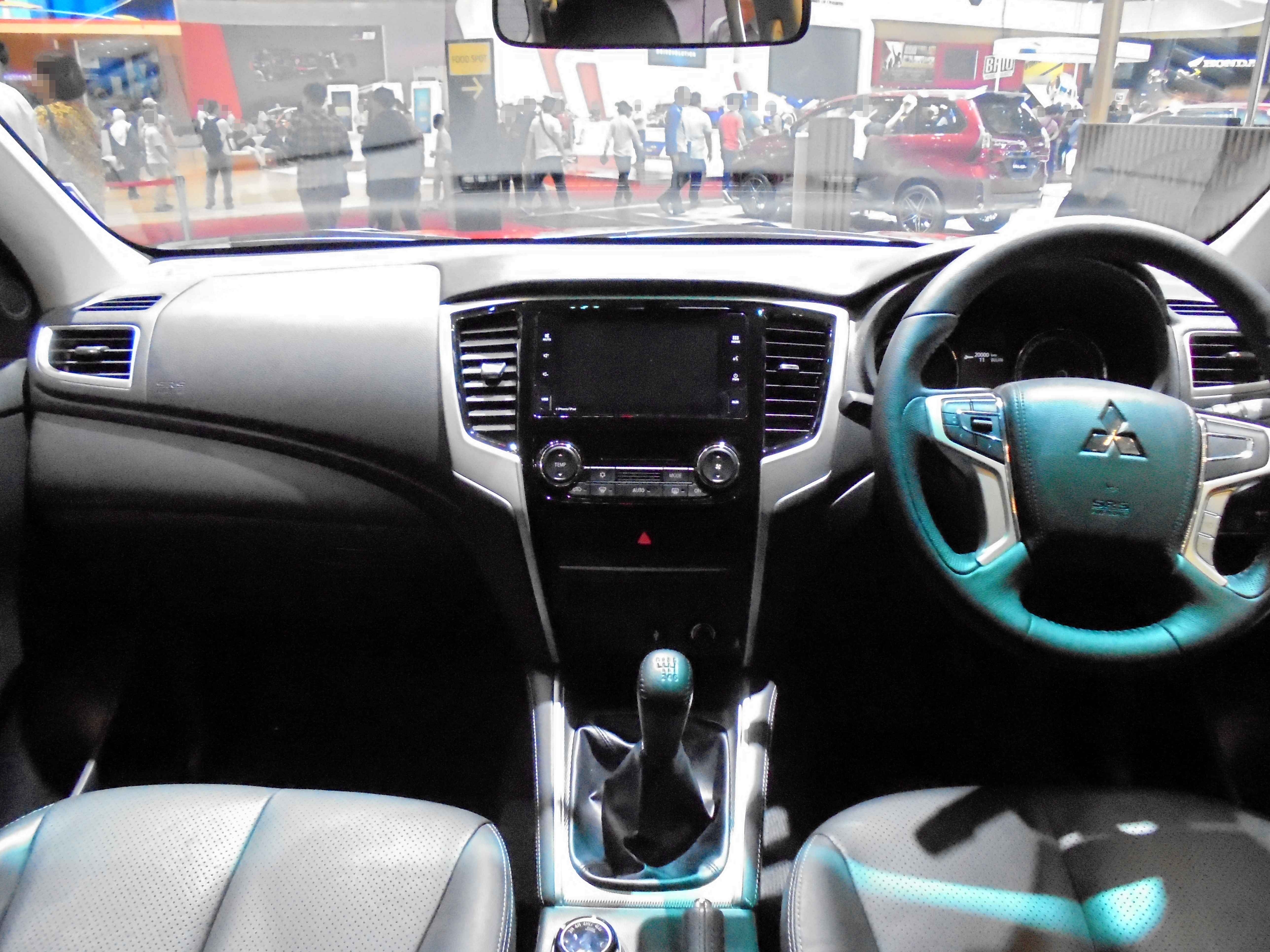 2019 Mitsubishi Triton Exceed 4x4 2.4 interior (KL1TJ)